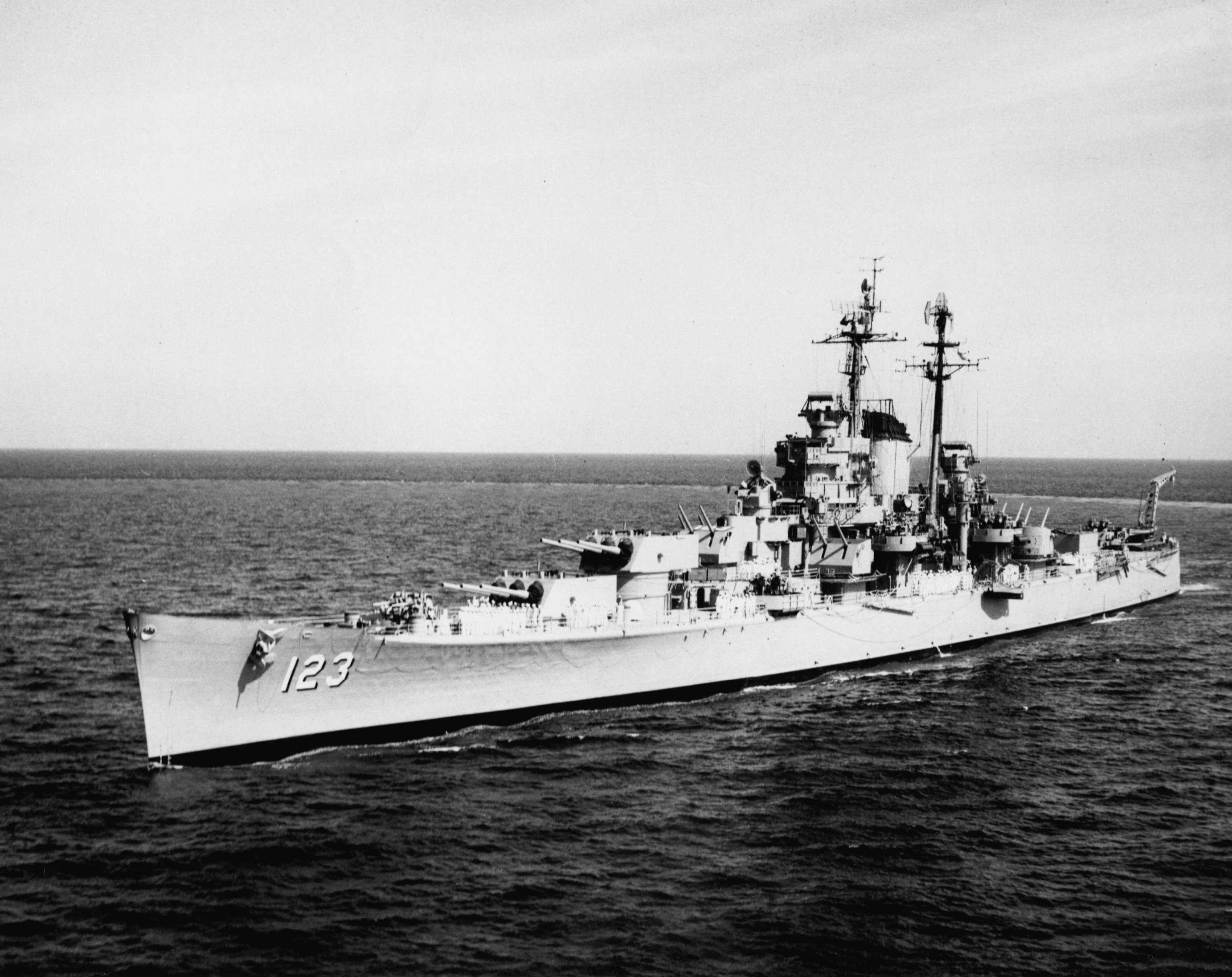 The U.S. Navy Oregon City-class cruiser USS Albany (CA-123) underway on 15 January 1955.